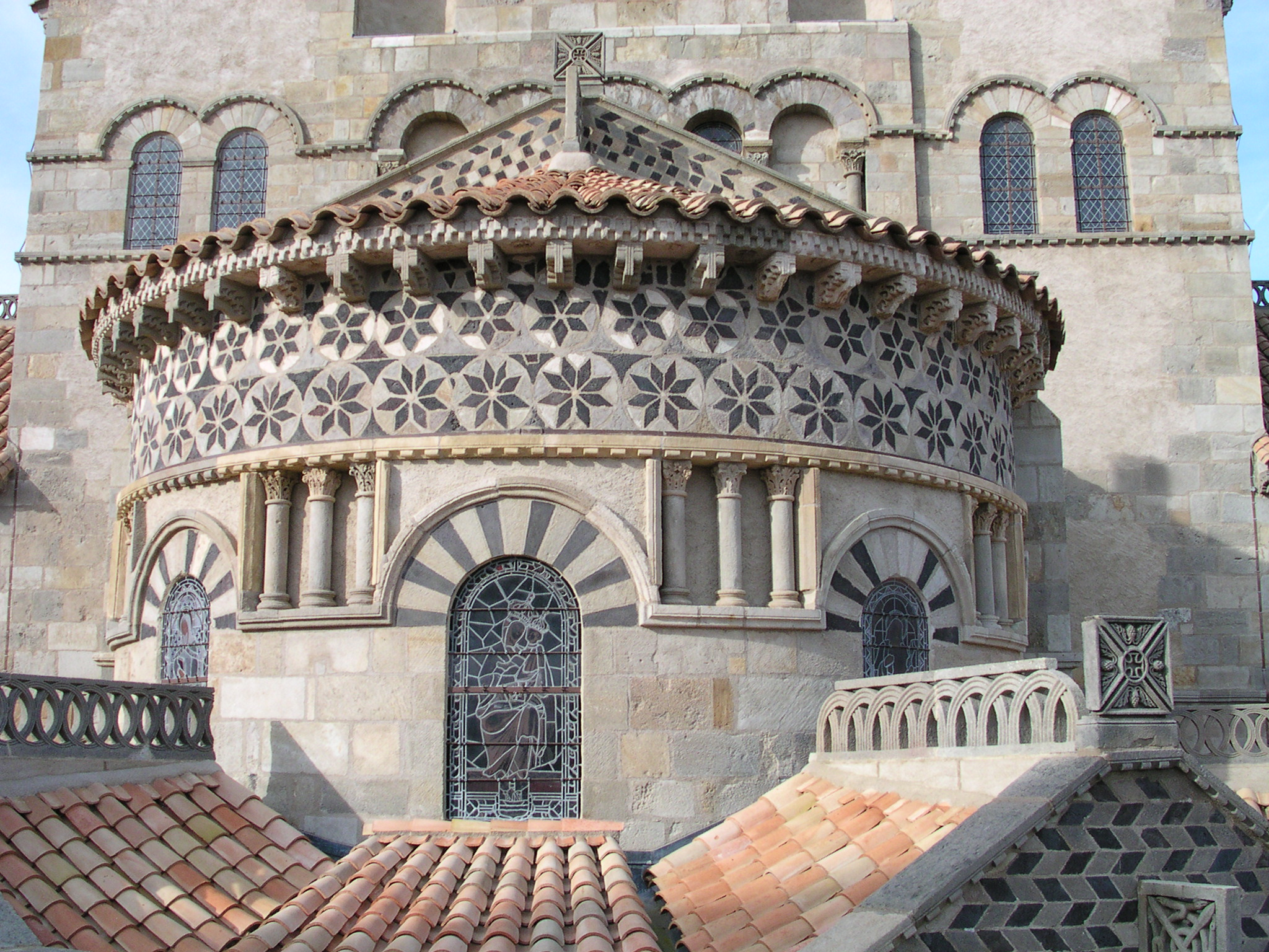 Basilica Notre Dame du Port XIIth century (Clermont-Ferrand, Puy-de-Dôme, France)